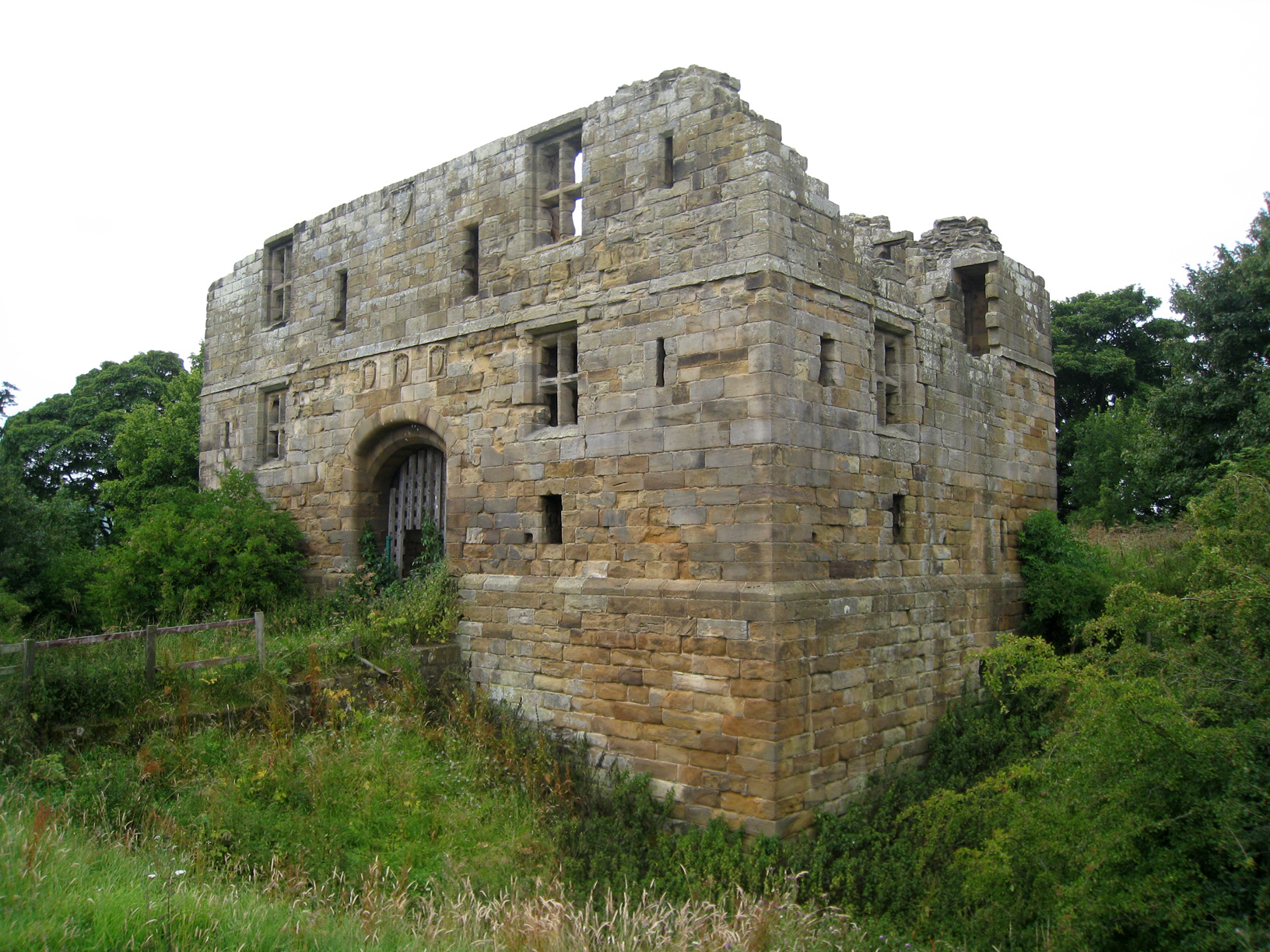 External view of Whorlton Castle, North Yorkshire